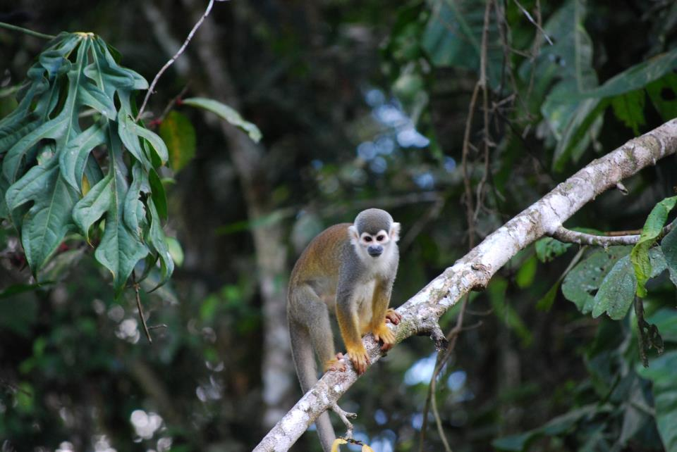 The Seimiri Sciureus, a small monkey, is common in the Cuyabeno Reserve and in the rest of the Amazonia rainforest.